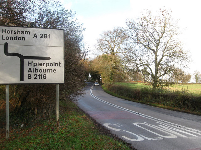 Crouch Hill The name of the A281 as it climbs from Chess Bridge to the junction with Wheatsheaf Road, the B2116.